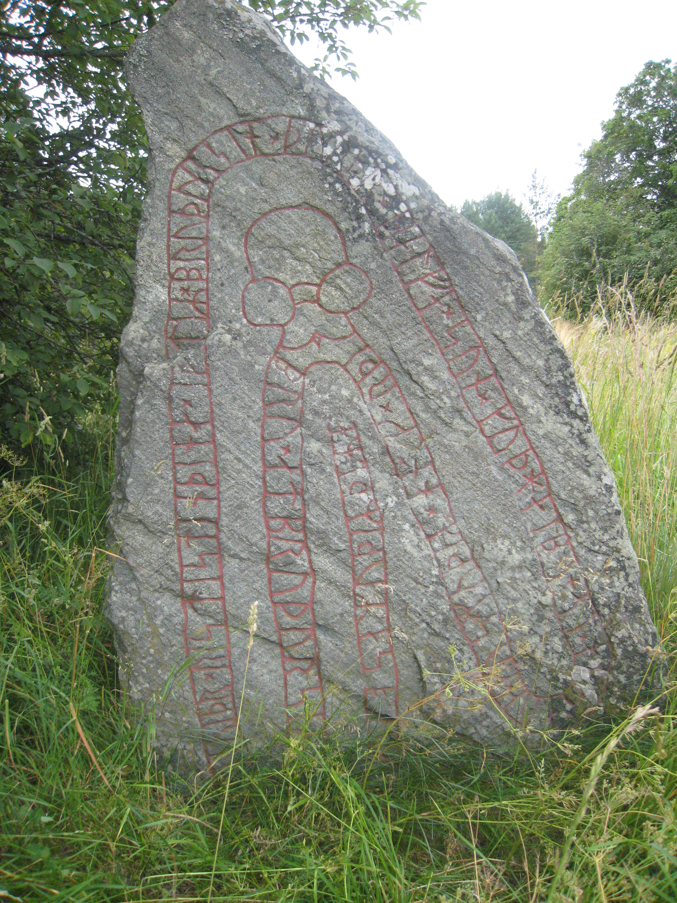 Runic inscription in county Uppland, Sweden